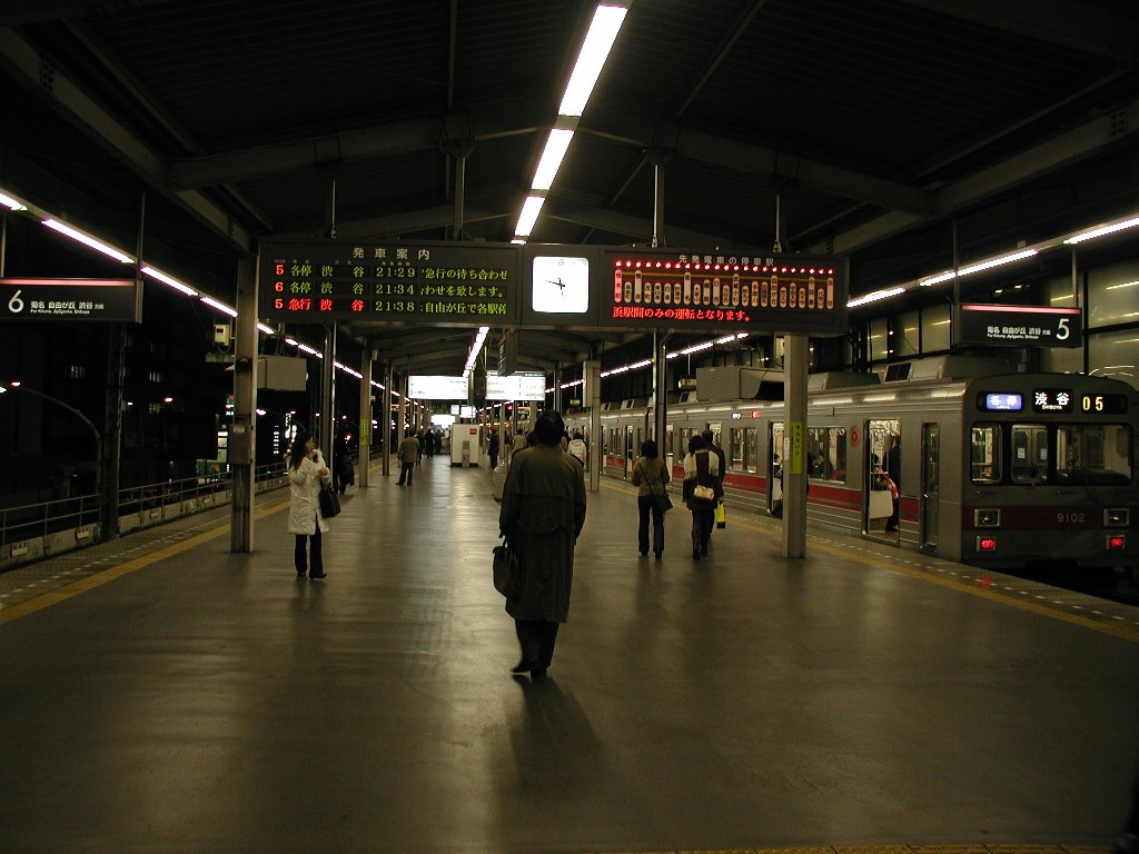 The former Tokyu Toyoko Line platforms at Sakuragicho Station, which closed at the end of January 2004